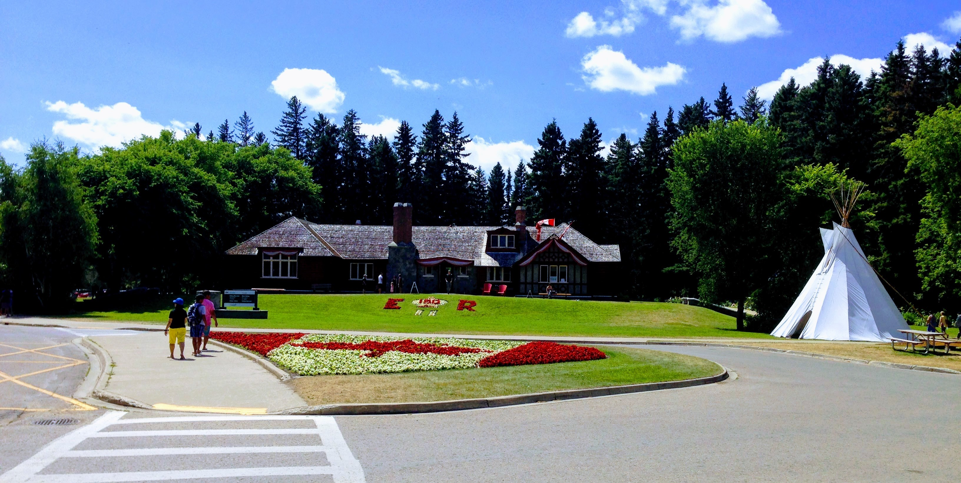 Wasagaming, Manitoba. Canada